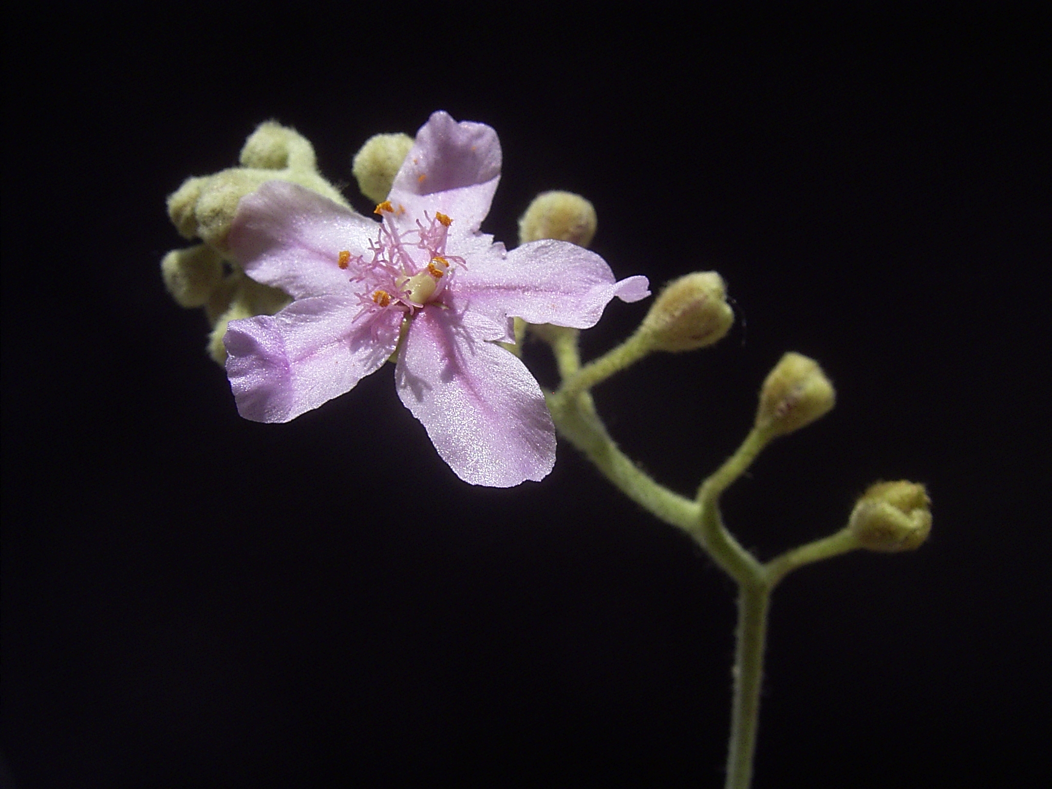 Drosera ordensis inflorescence Author: Denis Barthel